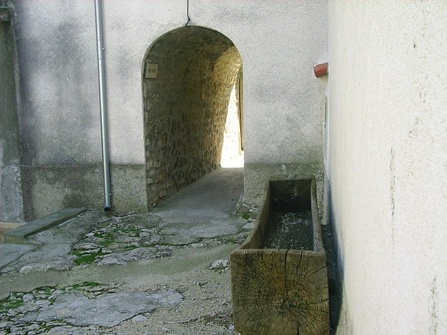 A town of Beli at the Cres Island, Croatia